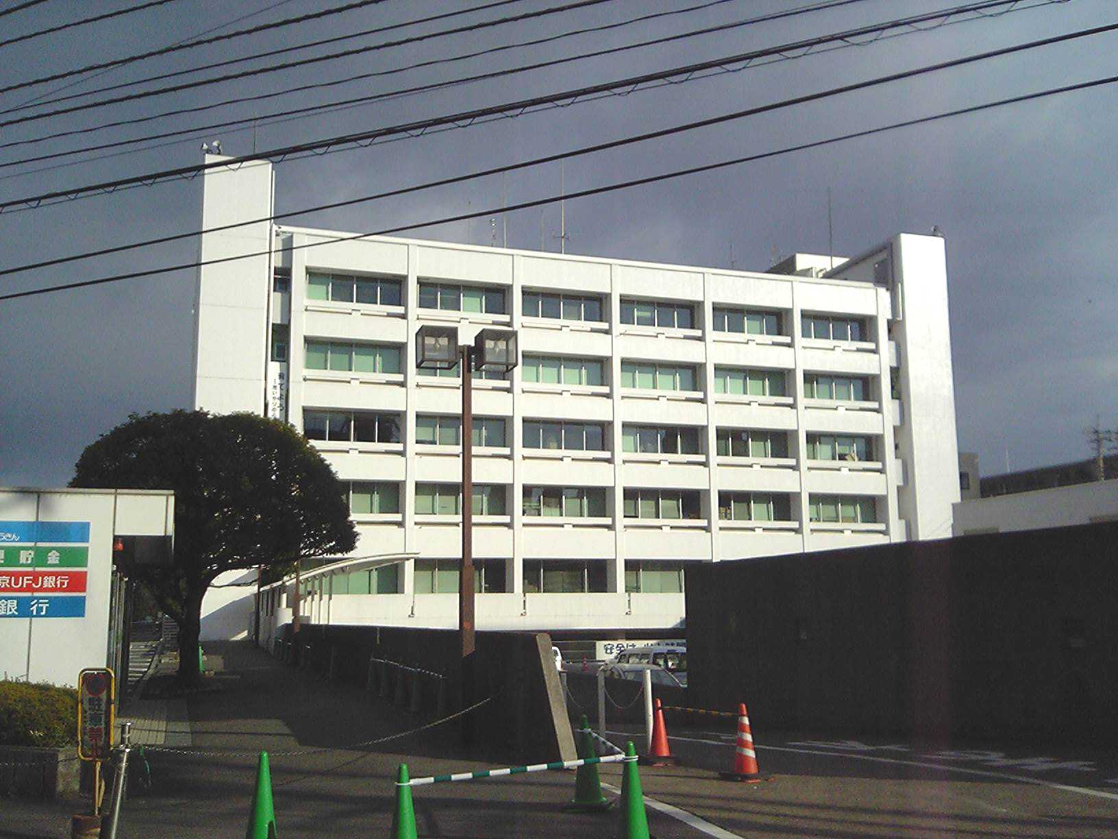 Atsugi City Hall in Kanagawa Prefecture, Japan